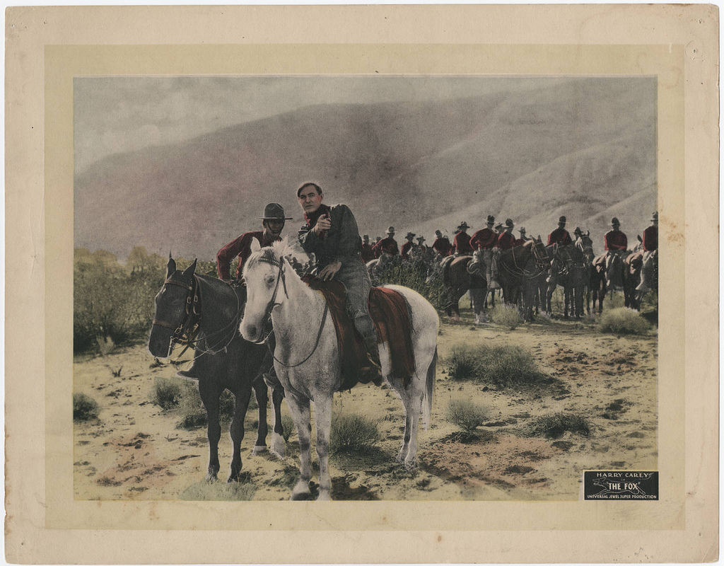 Lobby card with Harry Carey in the American silent western film ' (1921). Approximately 35.5 x 27.5 cm. Part of the Western silent films lobby card collection, 1912-1930. Cite as Yale Collection of Western Americana, Beinecke Rare Book & Manuscript Library, Yale University. Bibliographic Record Number 2019866. View our Record Permalink.